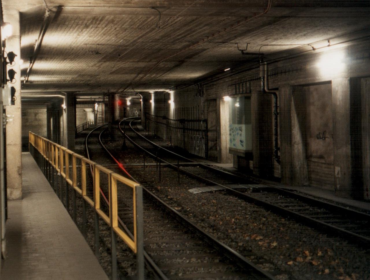 Southern exit of subway station "Waterloo" in Hannover, Germany. On the left you can see the tunnel stub which was planned for extension towards Linden-Mitte and Badenstedt. The tracks lead to the tunnel ramp in Gustav-Bratke-Allee. The picture shows the original state of 1976 before reconstructions with regard to the "Legionsspange" extension took place.